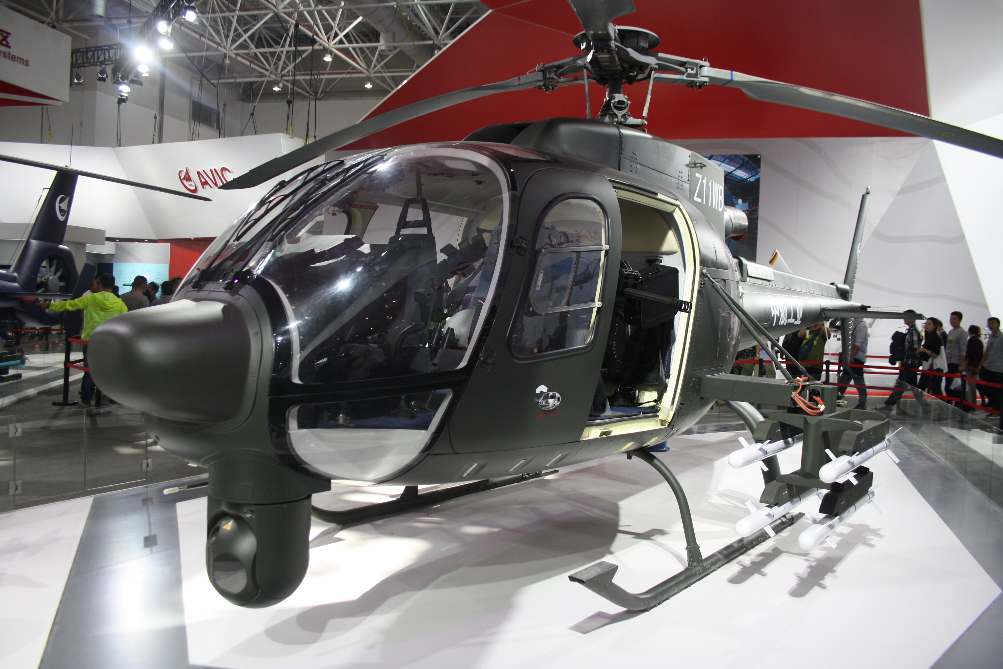 unknown Changhe Z-11WB, Zhuhai/Jinwan 4th November 2016